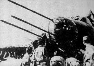 Vanda Corps Kawasaki Ki-48